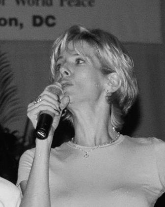 Wash D.C. 1997 ... duet for a fan